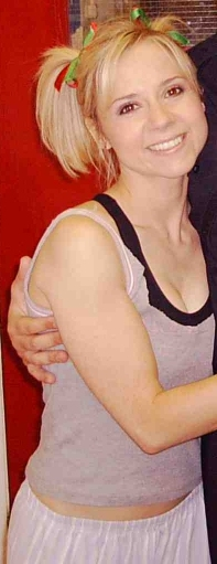 Source: I took the photo myself (that's my arm!) on the Fimbles Live tour, June 2006. Burns flipper 08:35, 16 November 2006 (UTC)